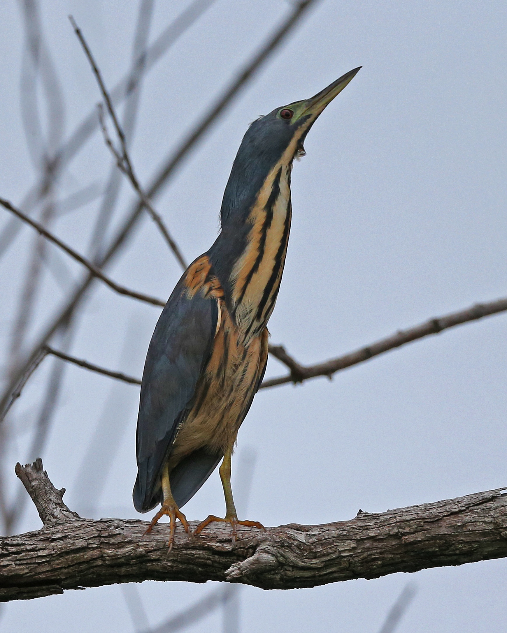 Dwarf Bittern, Ixobrychus sturmii